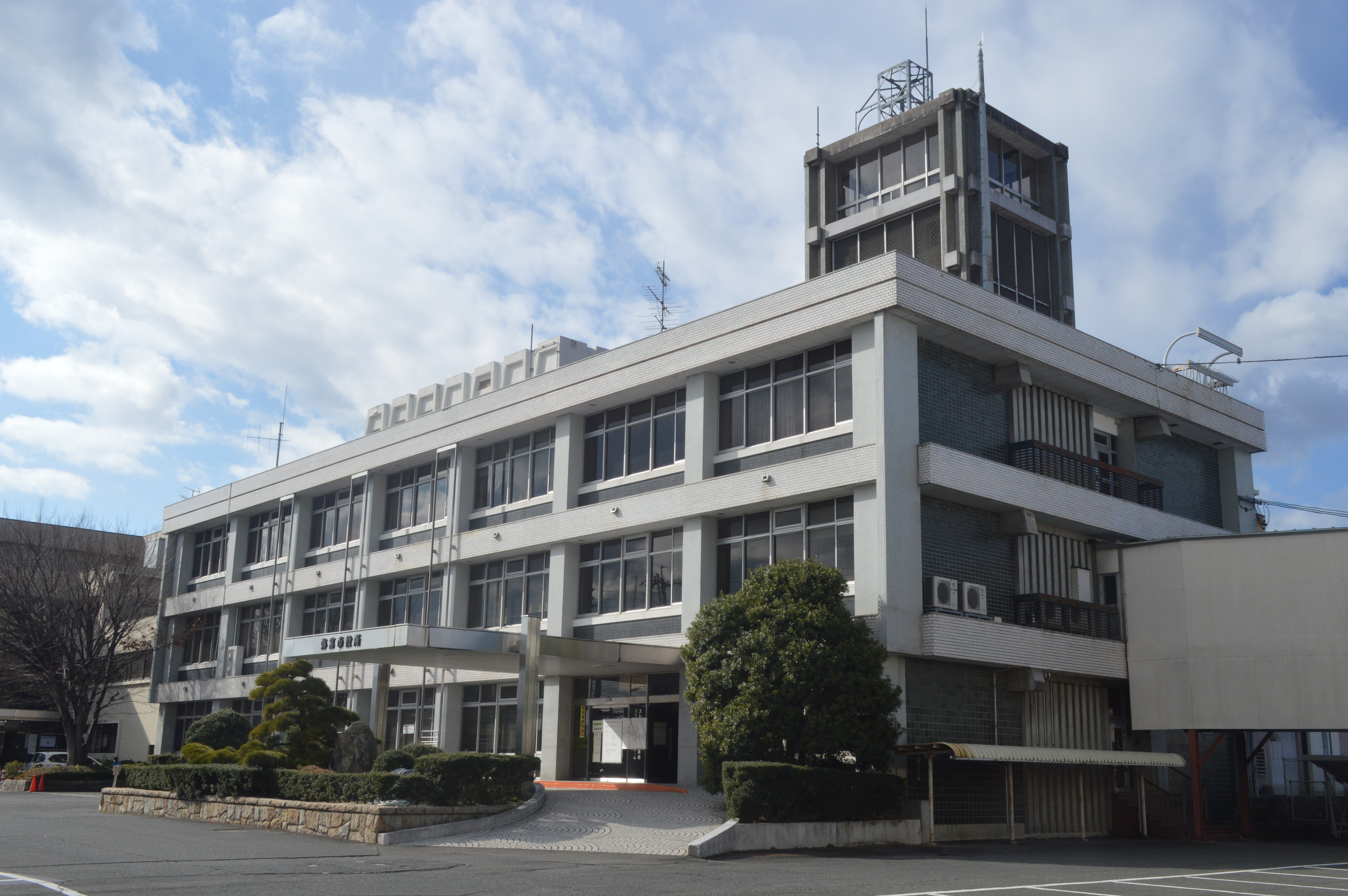 Yatomi City Hall in Aichi prefecture, Japan.